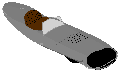 1940th years Dalnik (czech two-wheeled minicar with front wheel drive) from Jan Anderle